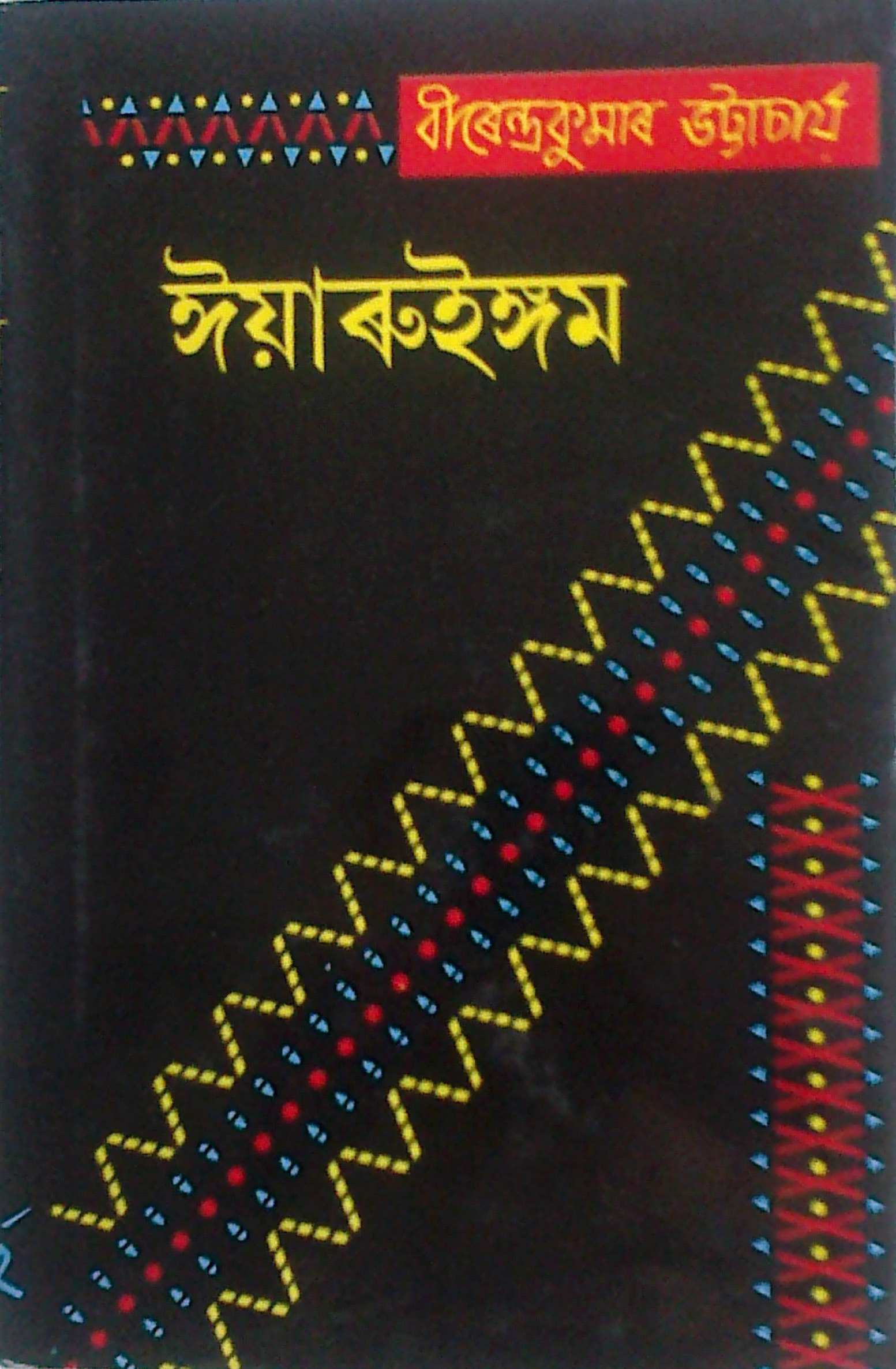 A distinguished Asomiya novelist poet and critic, recipient of the Sahitya Akademi and Jnanpith awards, Dr. Birendra Kumar Battacharya, Set in the post-World War II era, this title deals with the Naga revolt and their search for identity in a newly independent India. A story of the Tangkhul Nagas of Ukhrul, Manipur, it offers a glimpse into the problems of tribal awareness and the fallout of India's independence in this region.